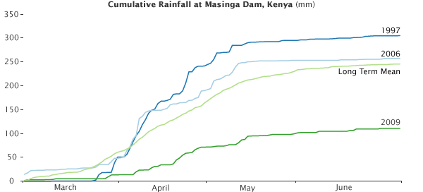 The graph illustrates why water levels were so low at Masinga Dam in 2009 compared to the long-term average and other recent years. Each line shows how the rainy season developed between March and June. 1997 was an unusually wet year, with about 75 millimeters more rain than average by the end of June. The last year when rainfall reached normal levels was 2006. In 2009, the rainy season didn’t start until late March and less rain fell throughout the season. By the end of June, Masinga Dam had only received about 100 millimeters of rain, about 125 mm less than average and 200 mm less than in 1997.